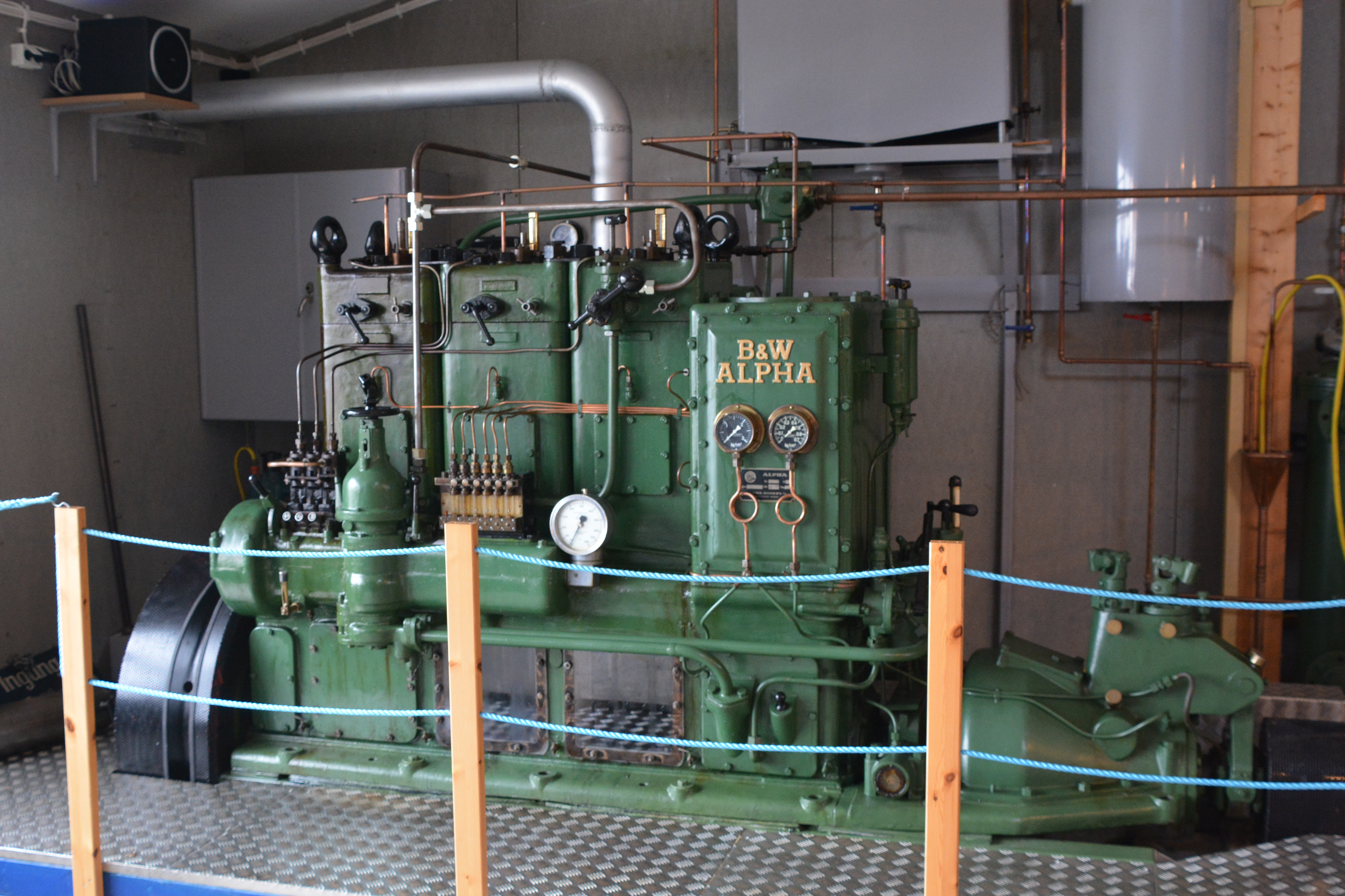 Diesel Burmeister & Wain Alpha typ 343 från 1946